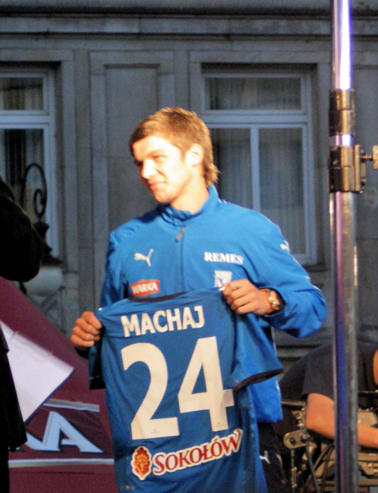 Mateusz Machaj, football player, team: Lech Poznań